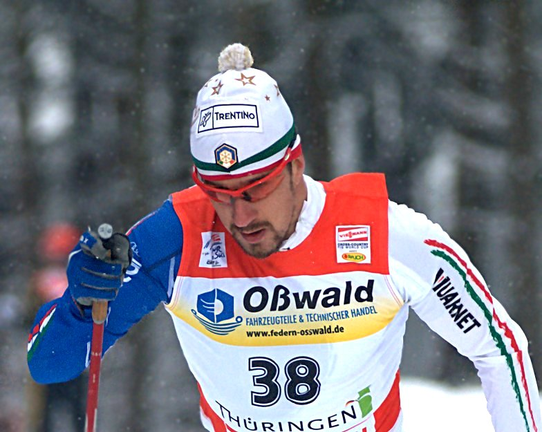 Loris Frasnelli at the Tour de Ski 2010 in Oberhof